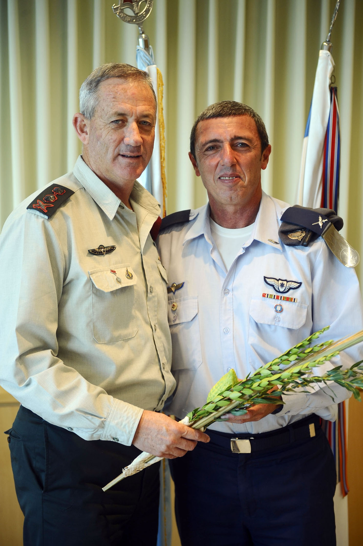 October 10, 2011 Today, Chief Military Rabbi Brig. Gen. Rafi Peretz gave the IDF Chief of Staff Lt. Gen. Benny Gantz the Four Species in anticipation of the upcoming holiday of Sukkot (Tabernacles). Photo by Sgt. Ori Shifrin, IDF Spokesperson Unit.